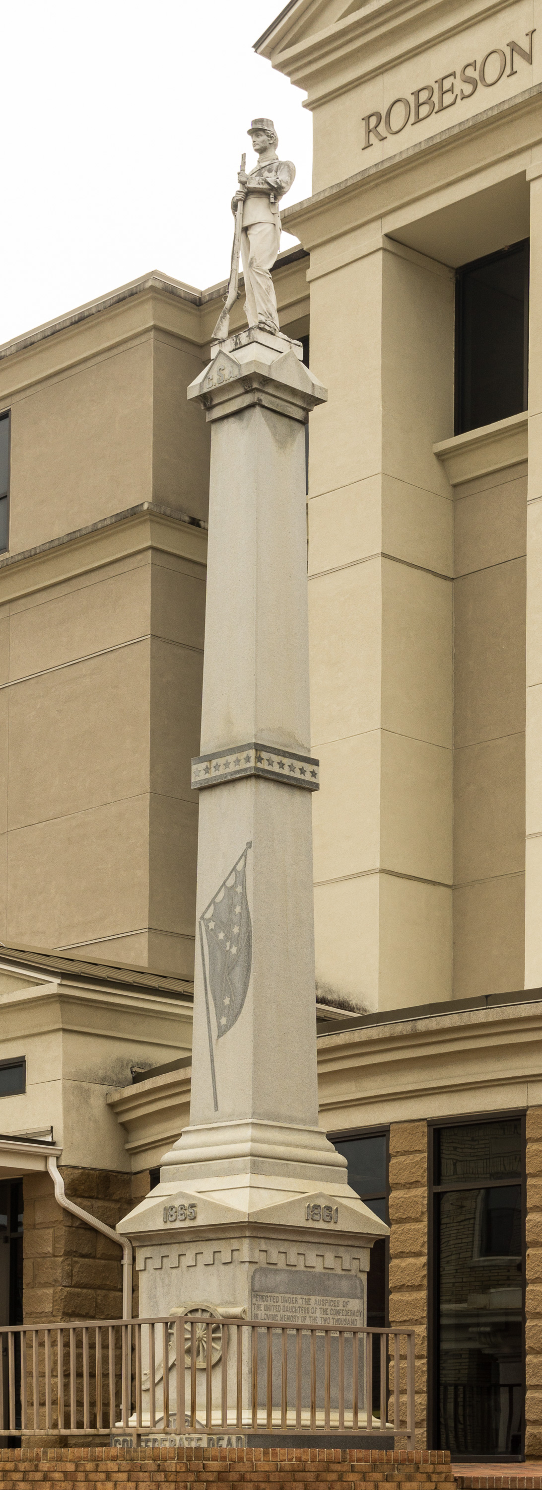 Confederate Civil War memorial at Robeson County Courthouse, Lumberton NC